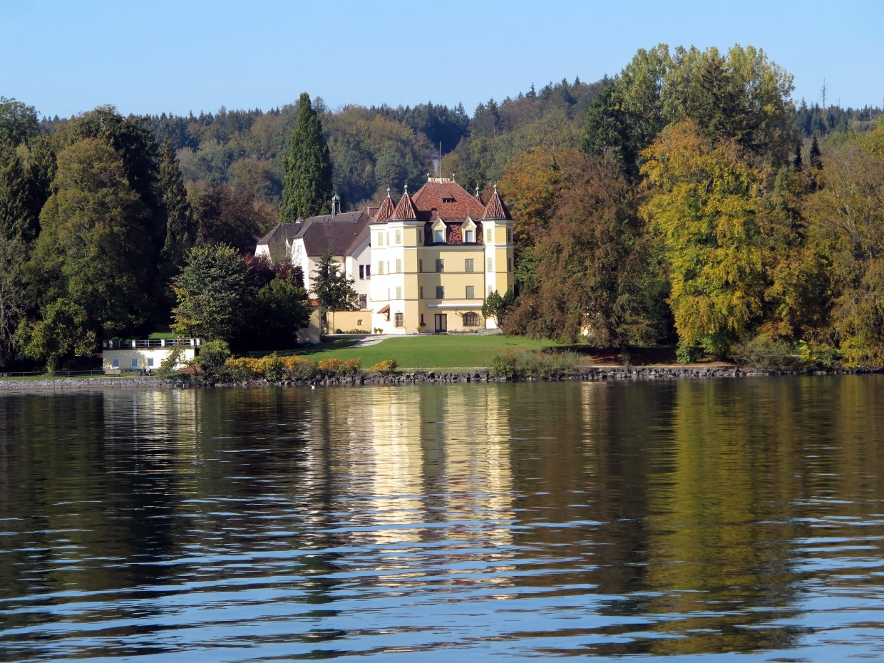 Castle "Garatshausen "